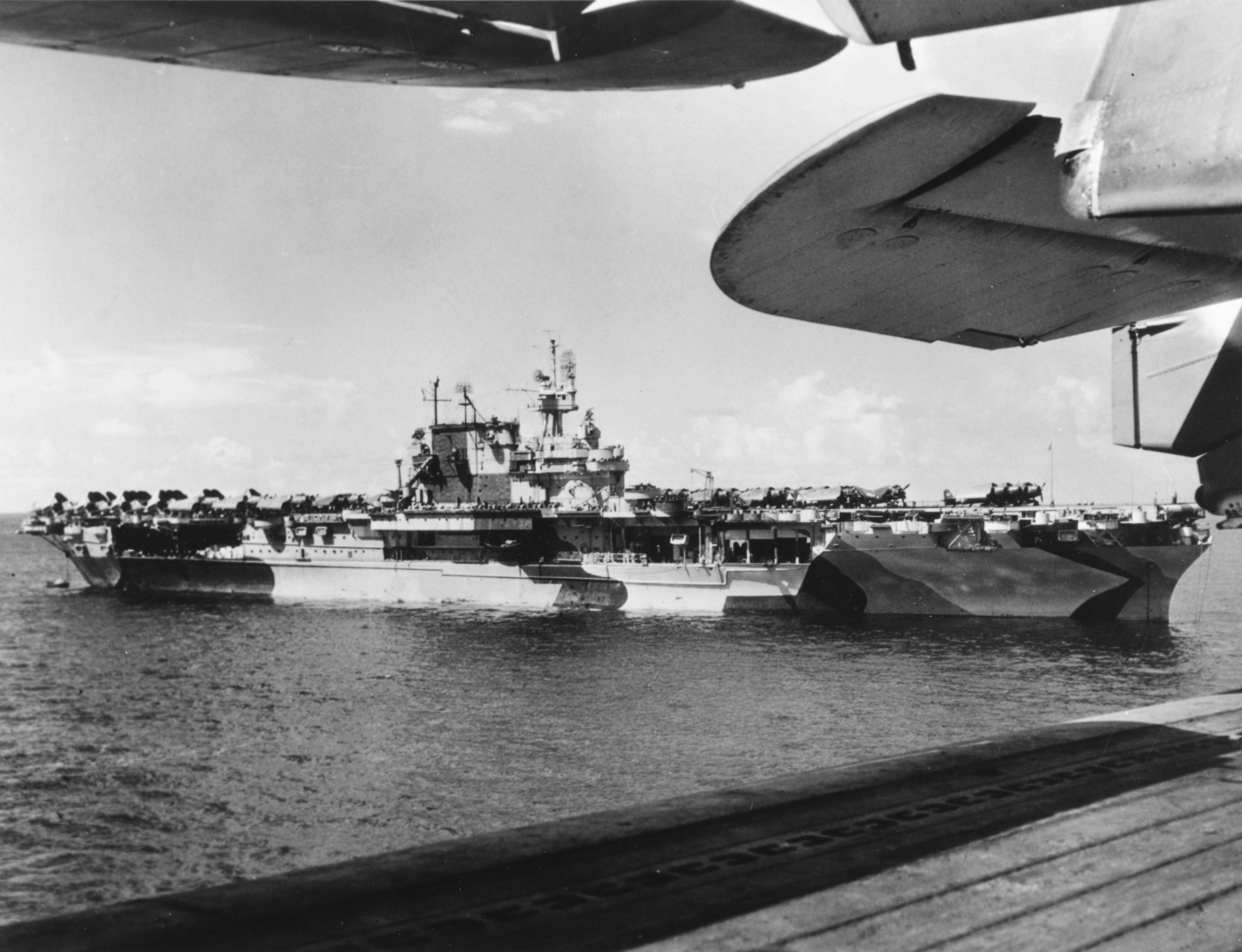 The U.S. Navy aircraft carrier USS Enterprise (CV-6) anchored off Saipan, circa mid-1944, while painted in Camouflage Measure 33, Design 4Ab. The photograph was taken from the flight deck of an escort carrier (CVE).